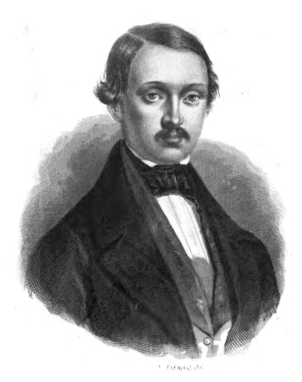 Leopoldo Pilla (1805-1848), italian geologist and politician